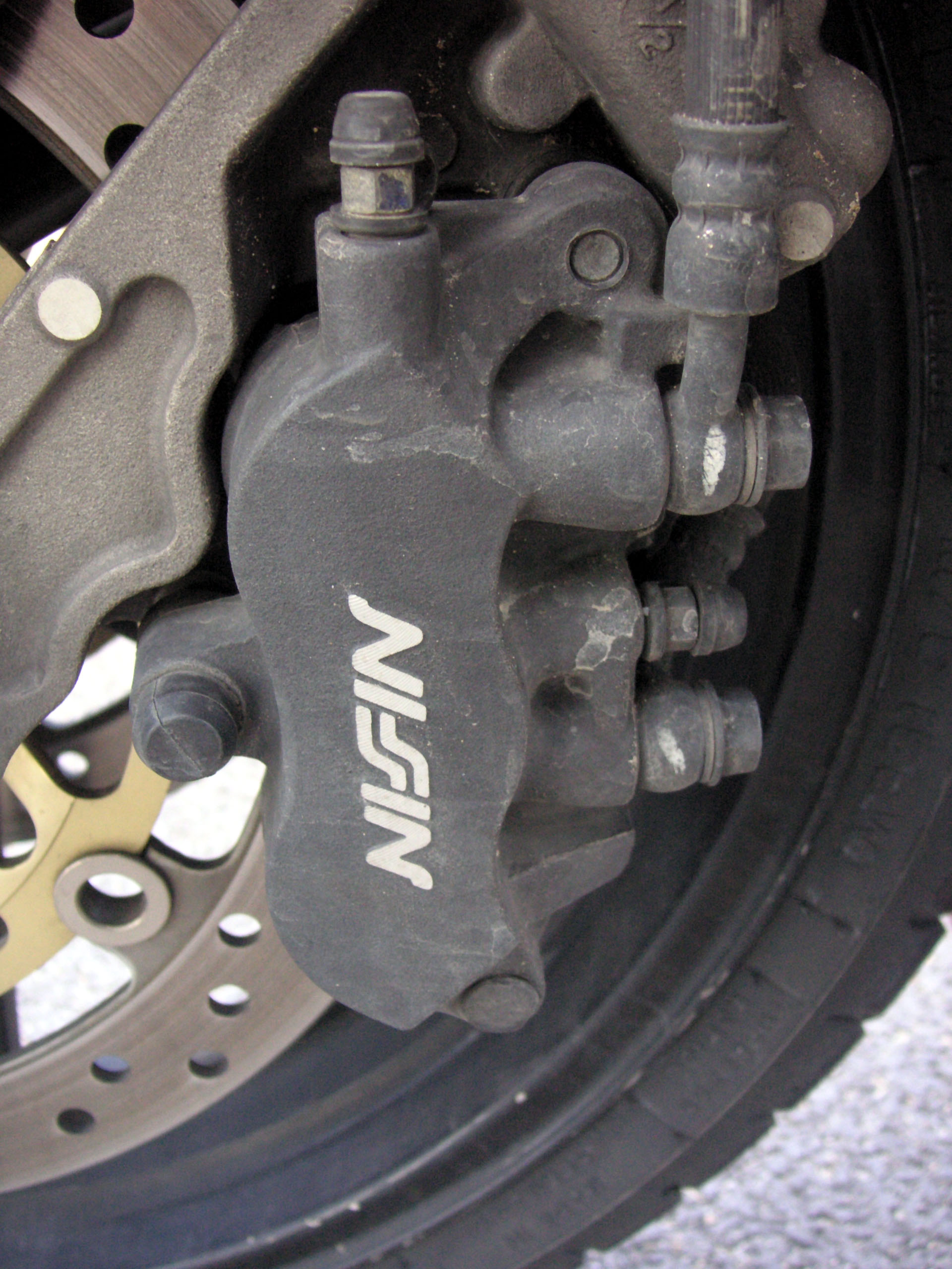 Clamp of brake